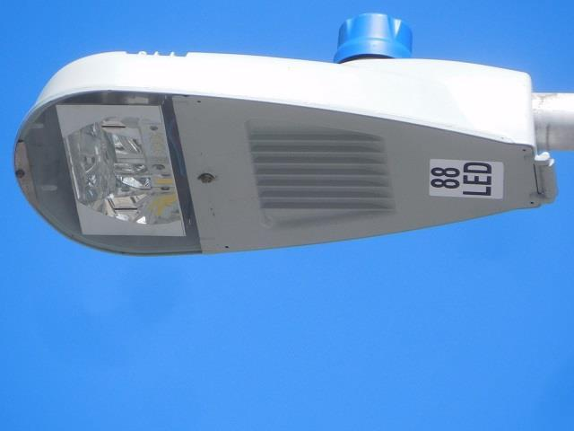 History of street lighting: General Electric Evolve ERL1 LED (15–200 watts)